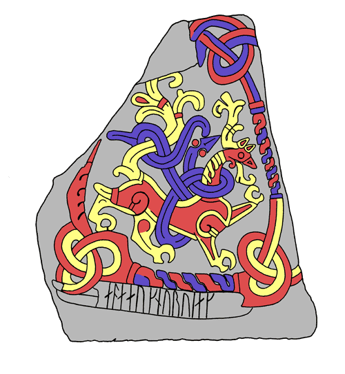 color reconstruction of animal petroglyph: Harald's runestone, Jelling stones